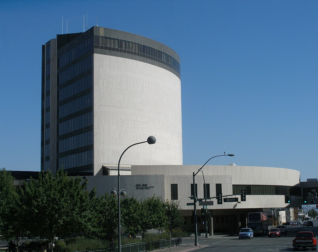 The Las Vegas City Hall — in Las Vegas, Nevada. The Modernist building was completed in 1973.